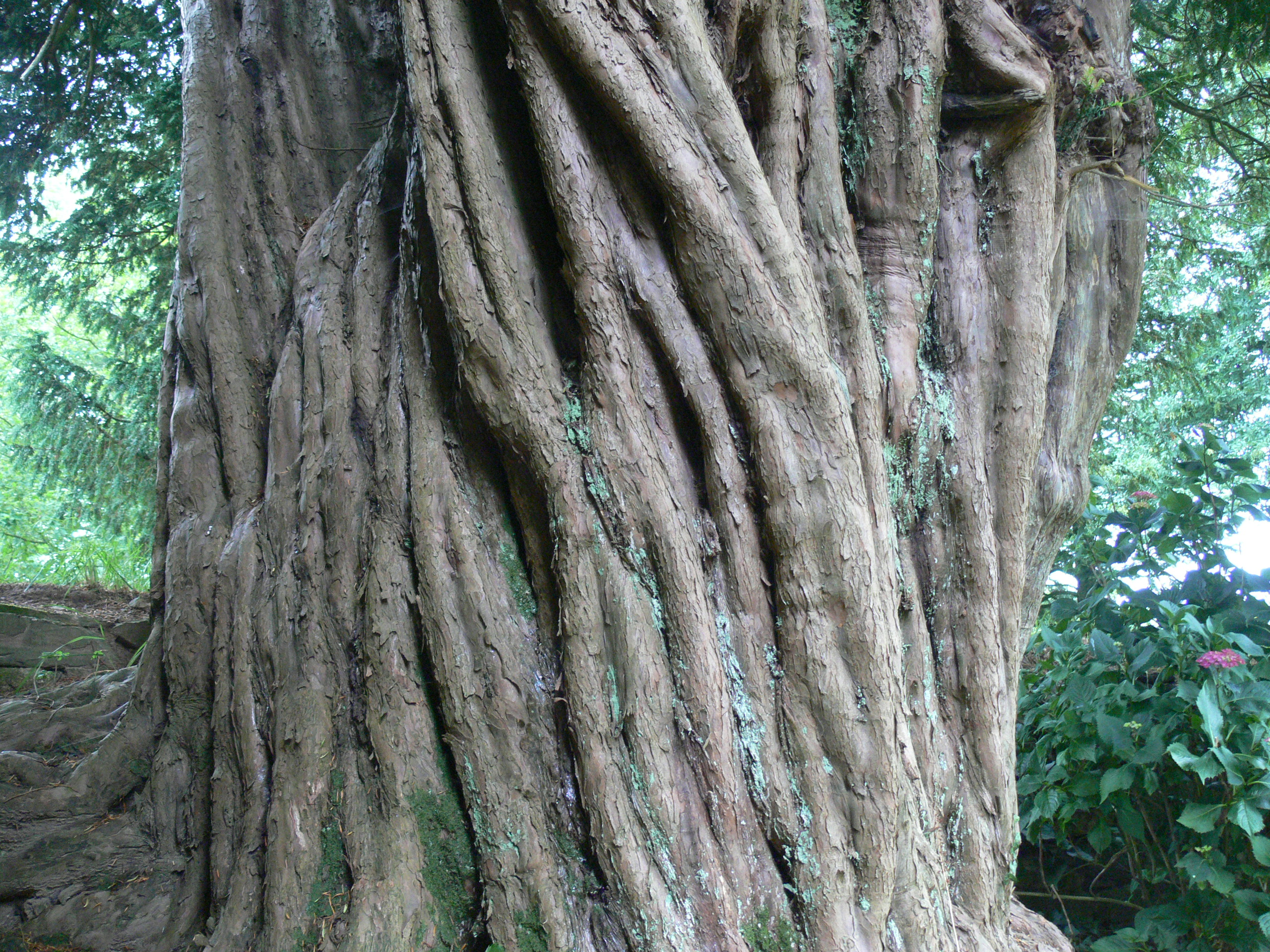 Ruins of the Church of St. Peter'(at a place called Old Village of Quimerc'h) in Pont-de-Buis-lès-Quimerch, Brittany, France This church was build on sixteenth century. Itis the ancient parish church of the Old Village of Quimerc'h "abandoned 1877 after the town was moved 4 miles away to rebuild the road Landerneau Quimper, against the new railroad. It was once stones dated 1511 and 1584 (stolen) [1]. The church and ossuary (dated 1579 and recently restored) which is adjacent, are listed as historic monuments "(Remains of the church (ie. C 443): ranking by order of April 23, 1932 Ruins of + ossuary (ie. C 443): ranking by order of November 17, 1966). There is also a very old tree near the ossuary (400 years).